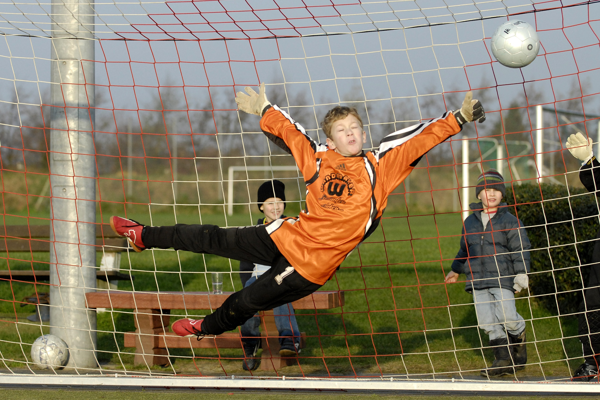 Goal keeper in action. (Youth game in Germany).